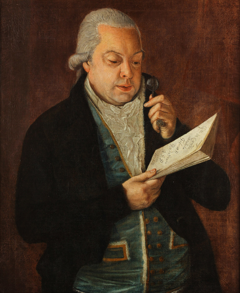 Portrait of the actor António José de Paula, by the Majorat of Setúbal.